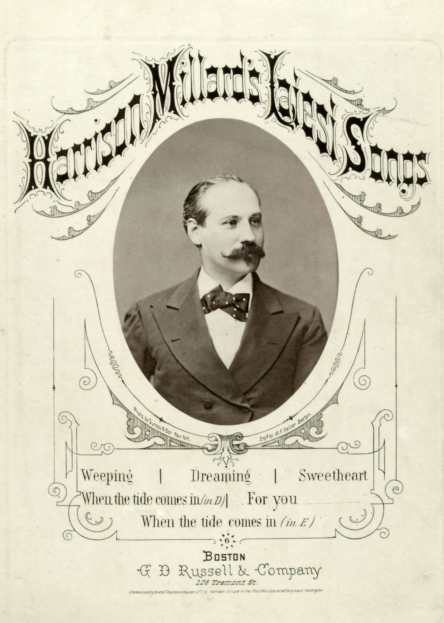 [Collotype of a portrait of Harrison Millard for the song When the tide comes in] / photo. by Gurney & Son, New York, engd. by W.F. Walker, Boston